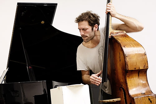 Jonas Westergaard in Aarhus, Denmark 2014